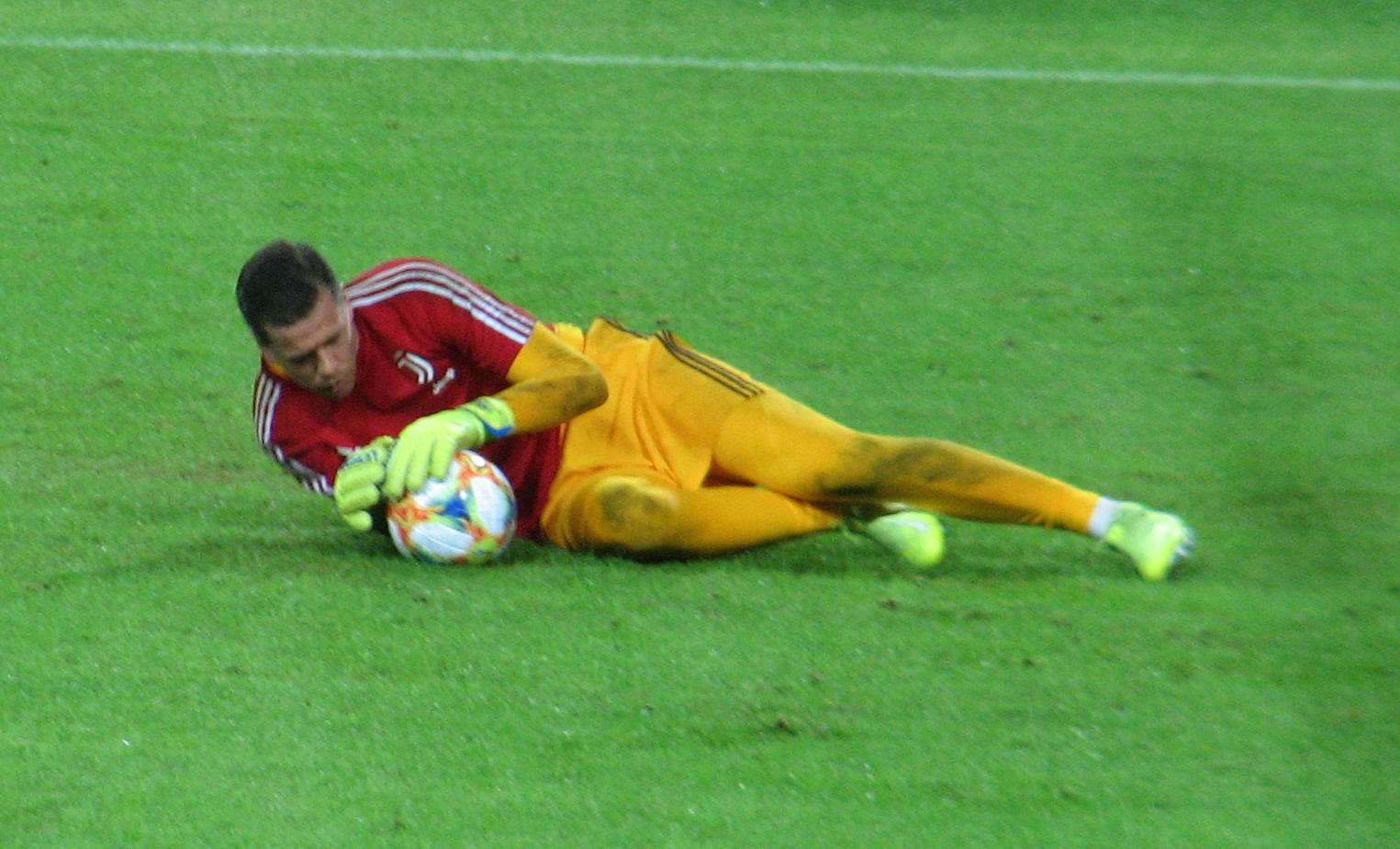 20190810 International Champions Cup at Friends Arena. Goals by Thomas Lemar (24') and Joáo Felix (33') for Atlético Madrid and by Sami Khedira (29') for Juventus.